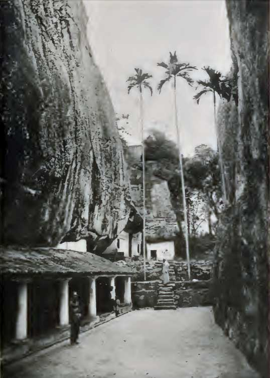 Aluvihare Rock Temple as in 1896 from The ruined cities of Ceylon by Henry W. Cave